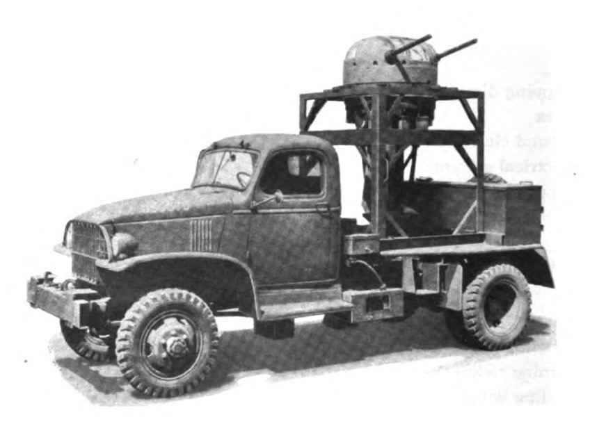 Chevrolet G506 turret trainer